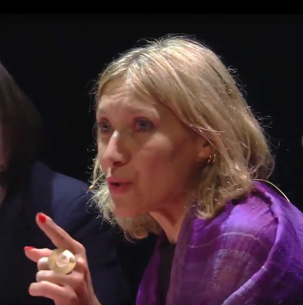 Nelofer Pazira at the Nexus Institute (the Netherlands), 18 Nov. 2017